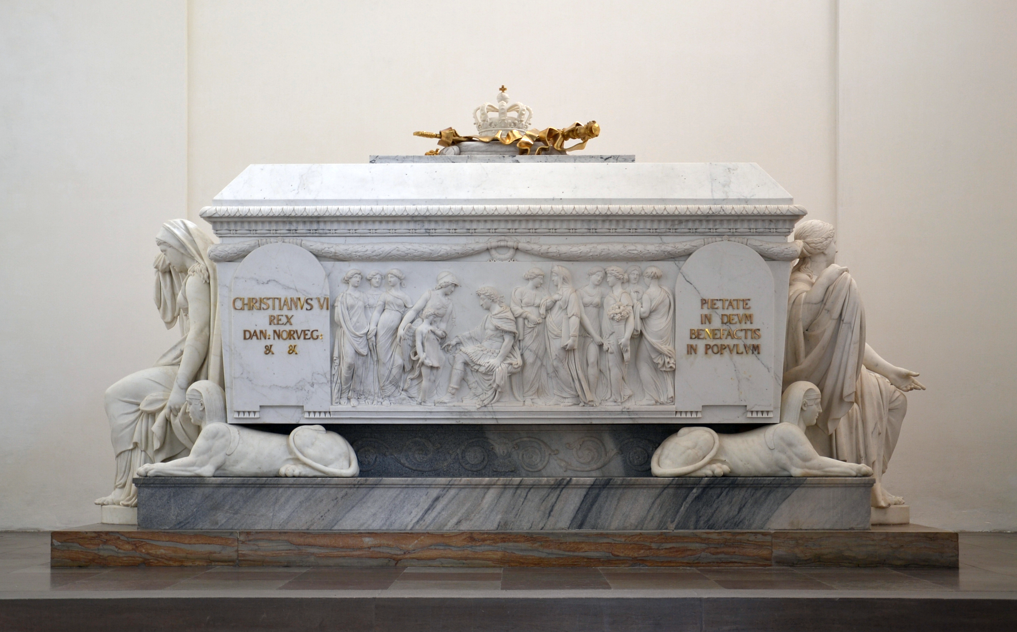 Roskilde cathedral, Denmark - sarcophagus of Christian VI